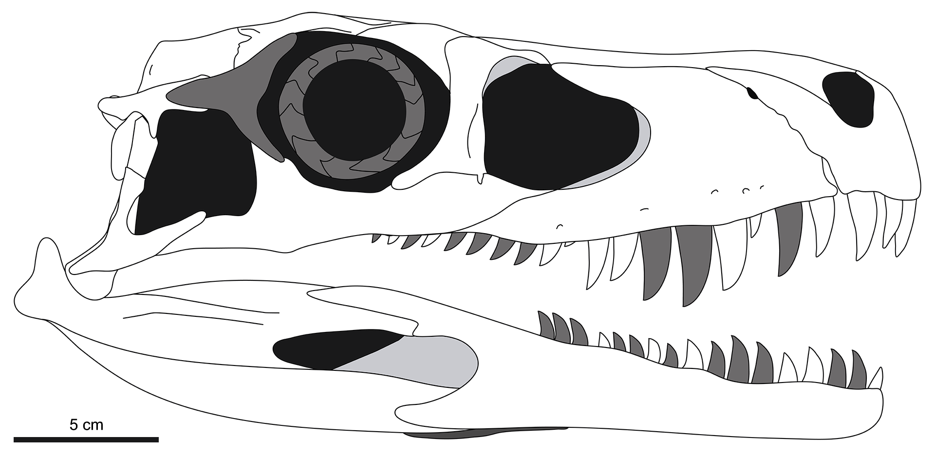 Digital illustration of the sincranium of Gnathovorax cabreirai